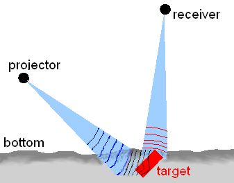 Biostatic buried objects detection